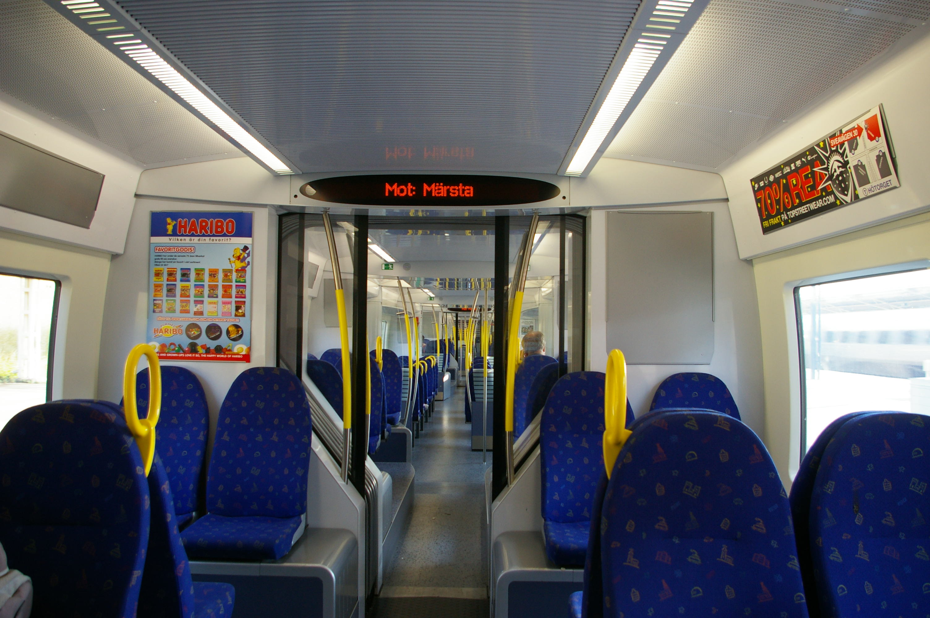 Interior of Alstom X60 electric multiple unit operated by SL, Sweden